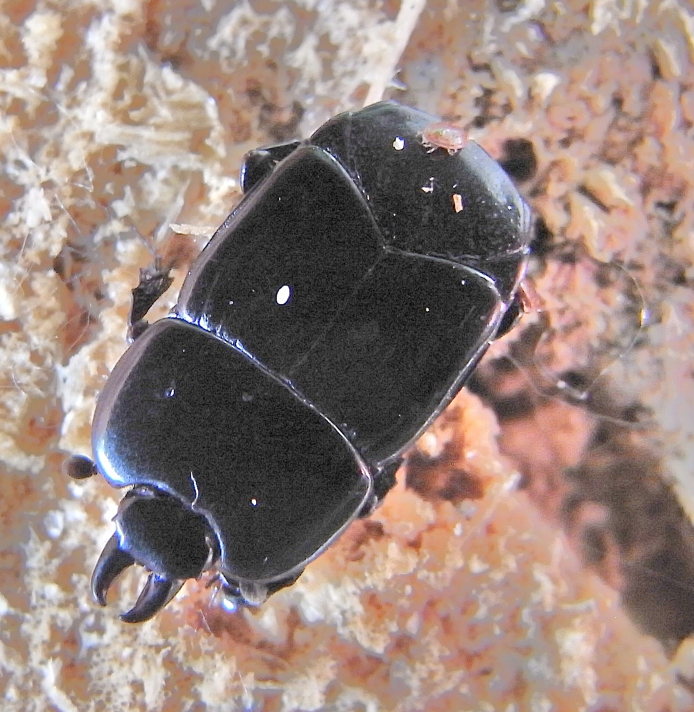 Hololepta plana from South-Hungary near Hoduna 2010-05-13 Ricoh R8